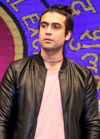 Jubin Nautiyal graces the International Customs Day.